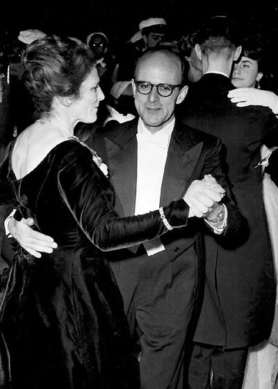 Max Ferdinand Perutz (1914 – 2002) with his wife Gisela at the 1962 Nobel ball